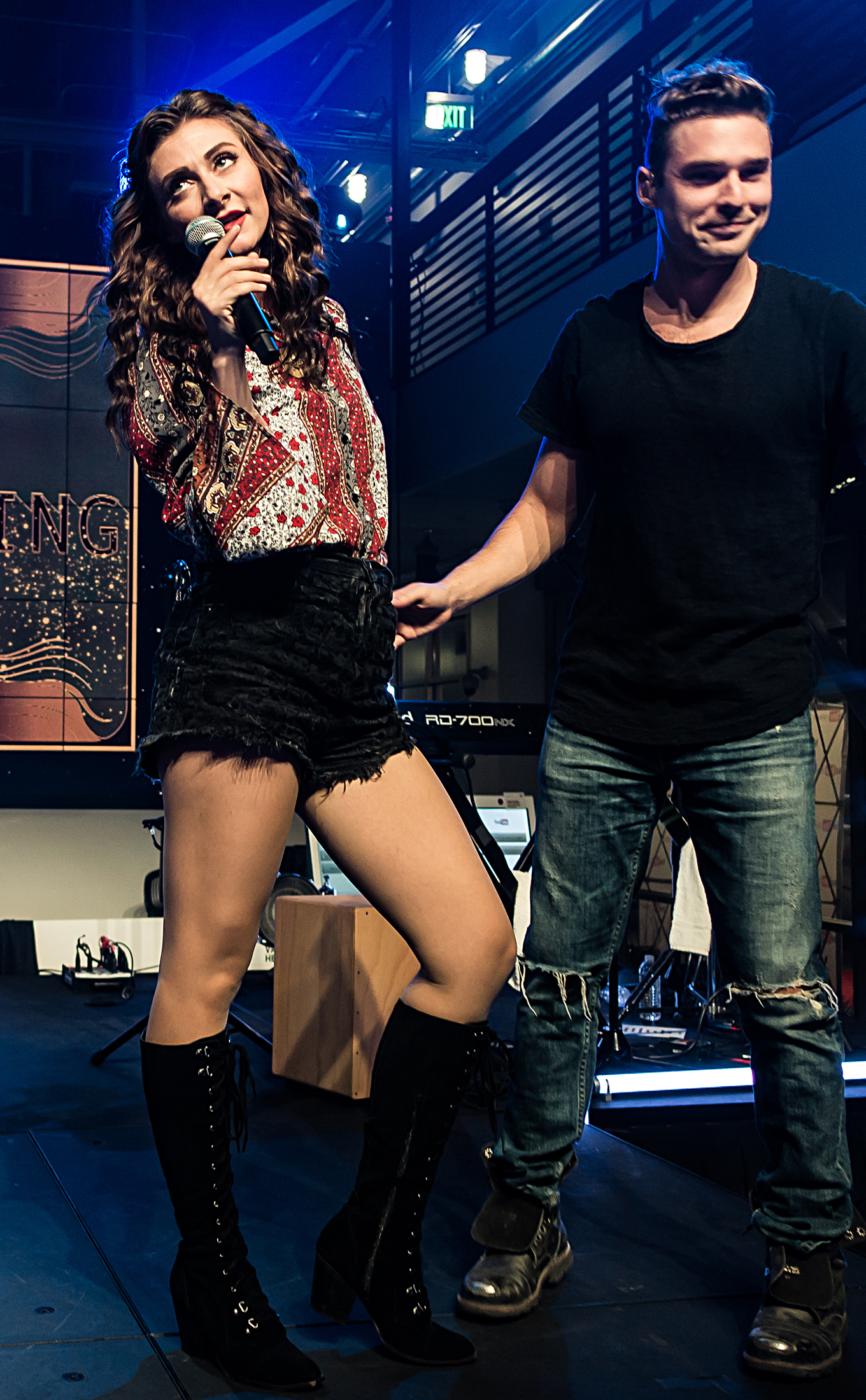 Karmin at YouTube Space LA